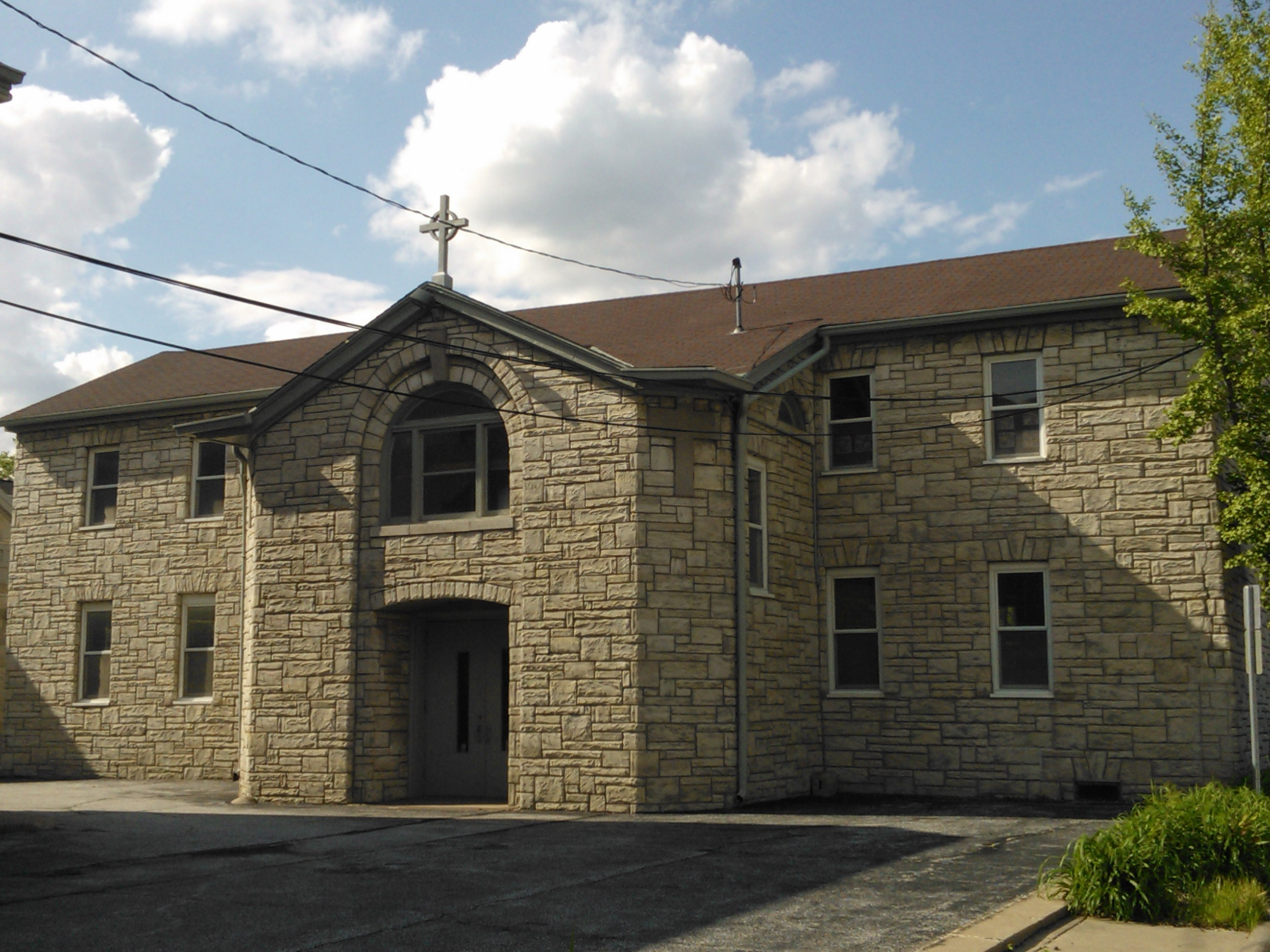 The original St. Anthony's Church in Davenport, Iowa. It was later used as the parish school. The structure was designed by the Rev. Samuel Charles Mazzuchelli, OP and built in 1838. It is the oldest church building still in use in the state of Iowa. It is listed on the National Register of Historic Places.